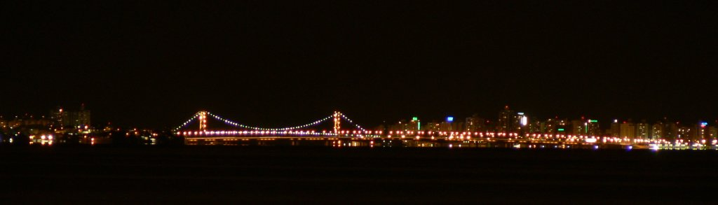 Hercílio Luz and other bridges, Florianópolis.